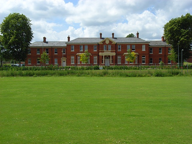 Lucknow Barracks, Tidworth An original building dating from the 1905. The site has been recently redeveloped and the new barracks lie to the west.